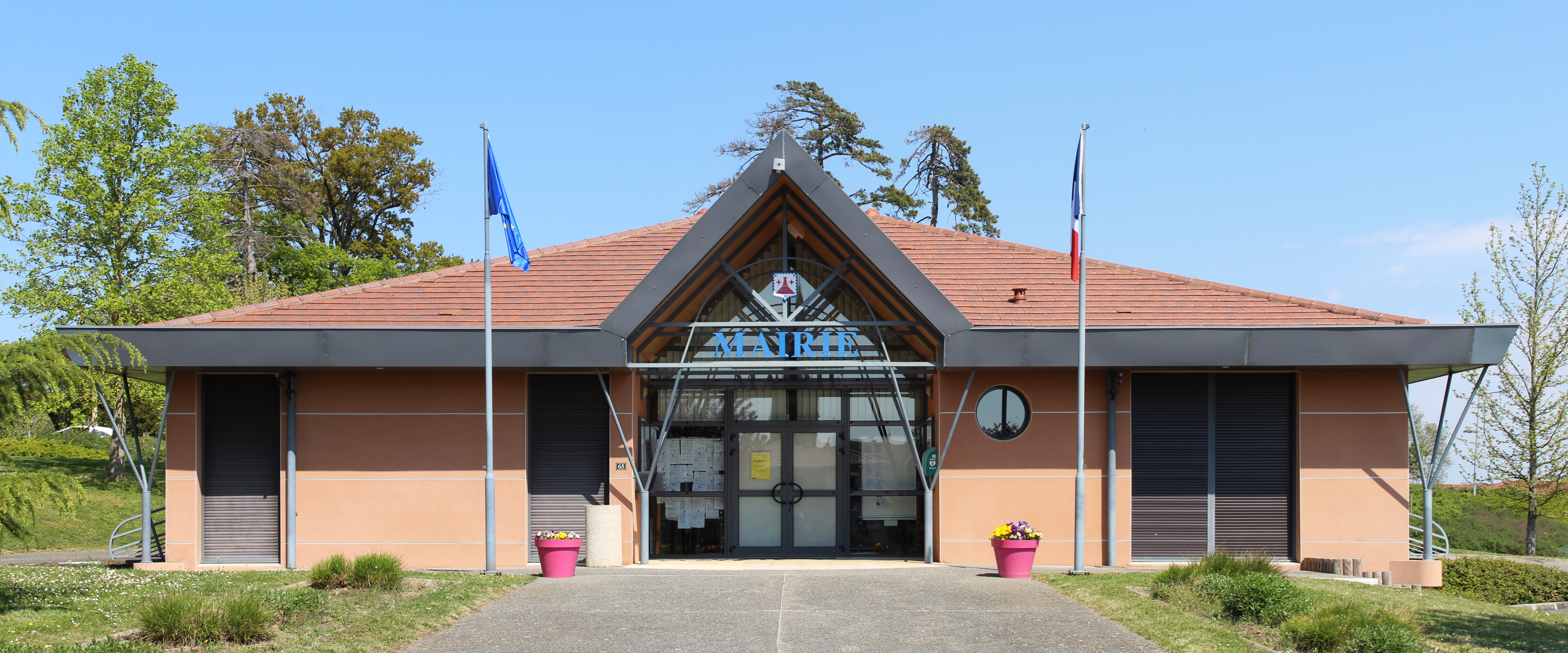 Town hall of Saint-Cyr-sur-Menthon, France.